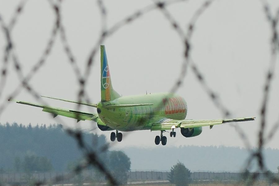 Landing of Boeing 737-500 VP-BTA on runway 15 of UWWW (Kurumoch, Samara, Russia)